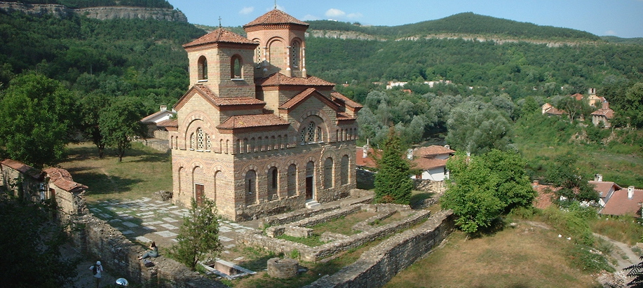 Church of St Demetrius of Thessaloniki, Veliko Tarnovo by Toma Dimov Taken [16:51, July 10th 2003]